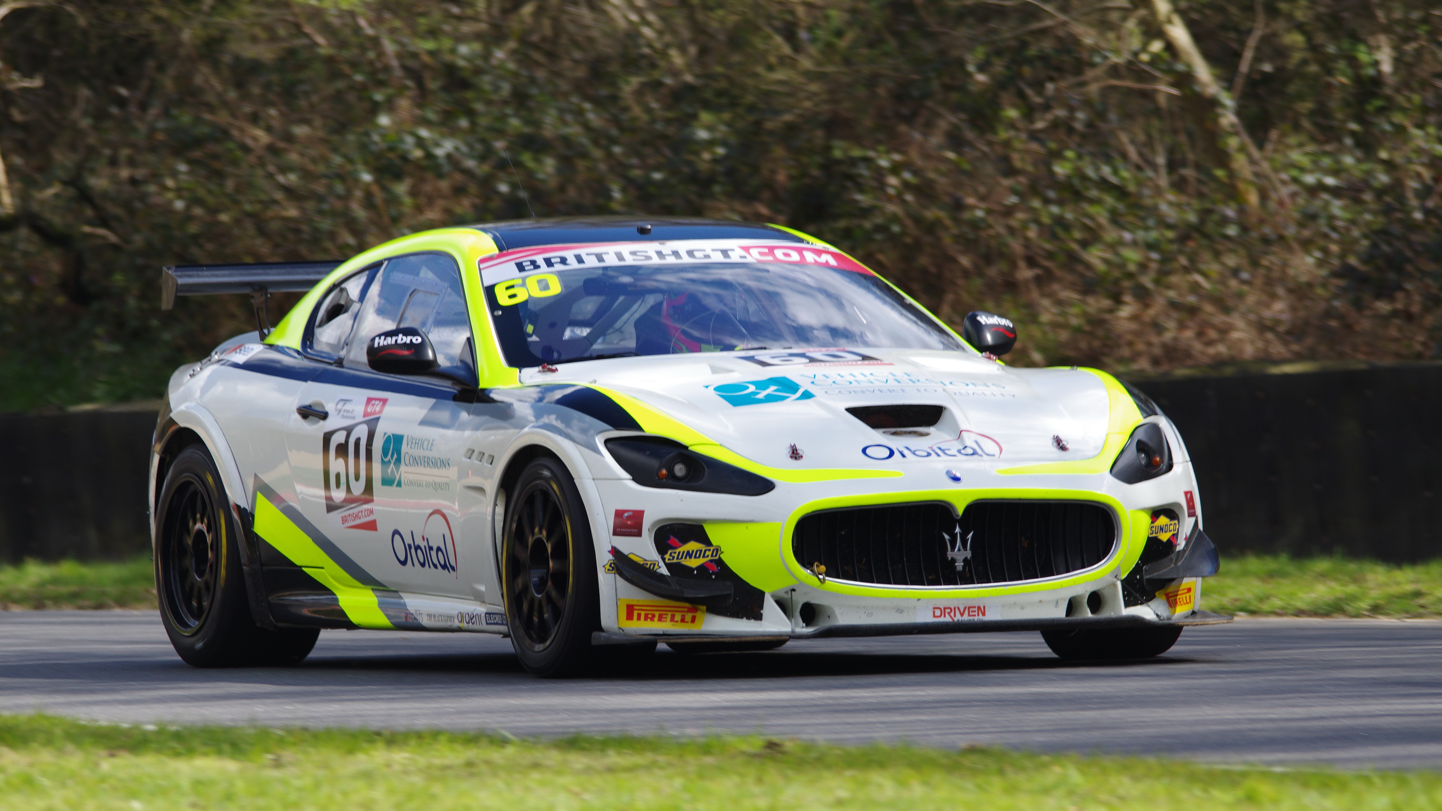 Stirlings, Sunday 17th March 2016 Abbie Eaton and Marcus Hoggrath's car for the British GT 2016